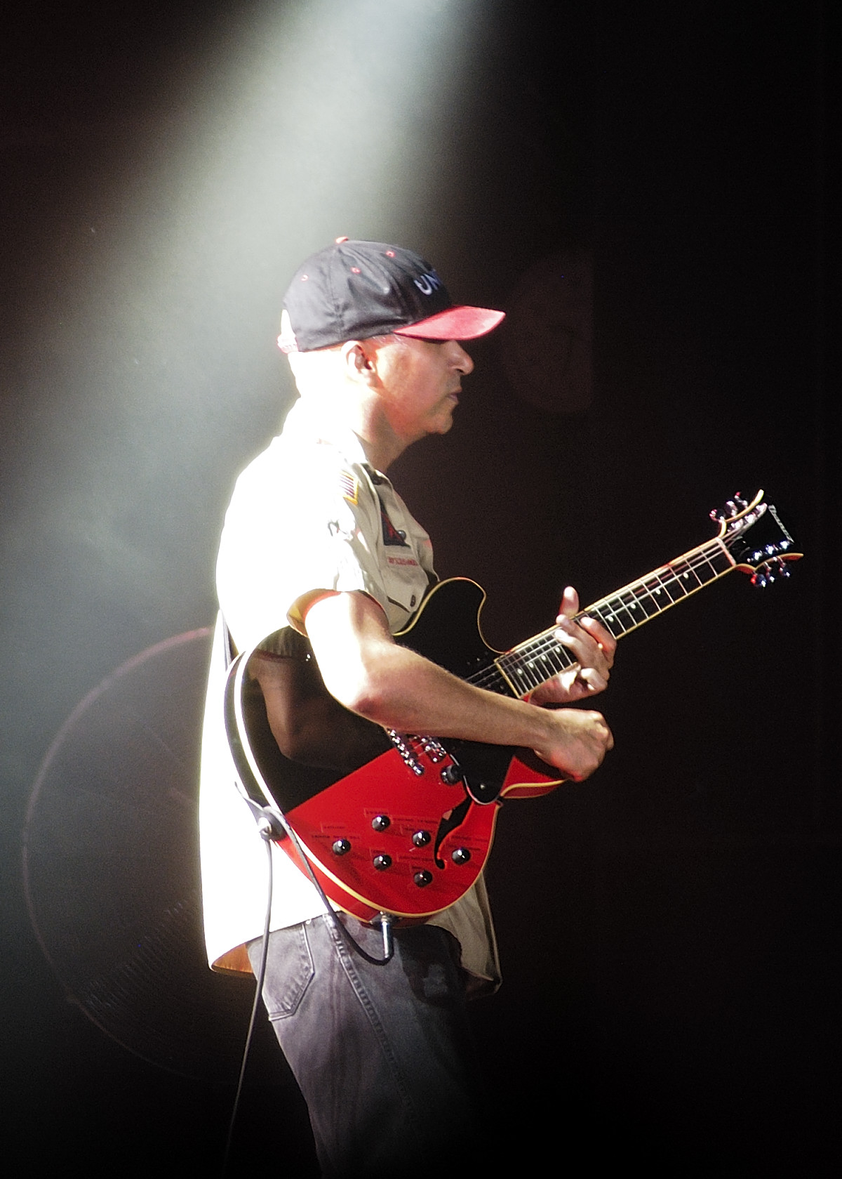 Rage Against The Machine at Big Day Out 2008, Melbourne Flemington Racecourse. Tom Morello, "Guerrilla Radio" solo